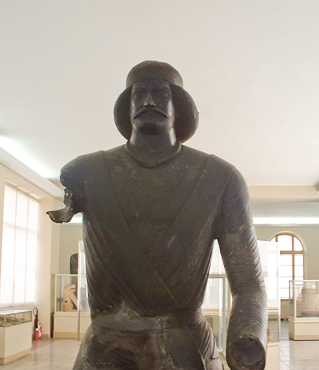 A bronze statue of a Parthian nobleman from the sanctuary at Shami in Elymais (modern-day Khūzestān Province, Iran, along the Persian Gulf), now located at the National Museum of Iran. Information presented here found on page 133 of Brosius, Maria. (2006). The Persians: An Introduction. London & New York: Routledge. ISBN 0-415-32089-5 (hbk). Photo taken by --Aytakin 01:16, 8 December 2005 (UTC).